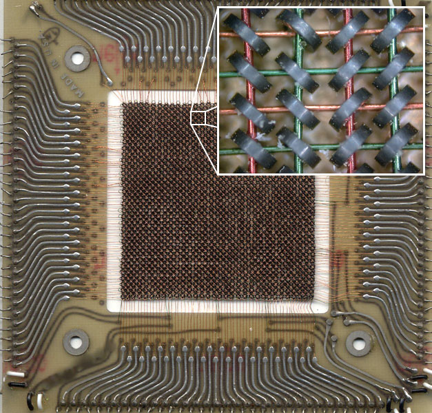 Random access ferrite core memory (RAM) from 1961. Size of the card : 10.8cm x 10.8cm (6.5 inch), capacity : 1024 bits.